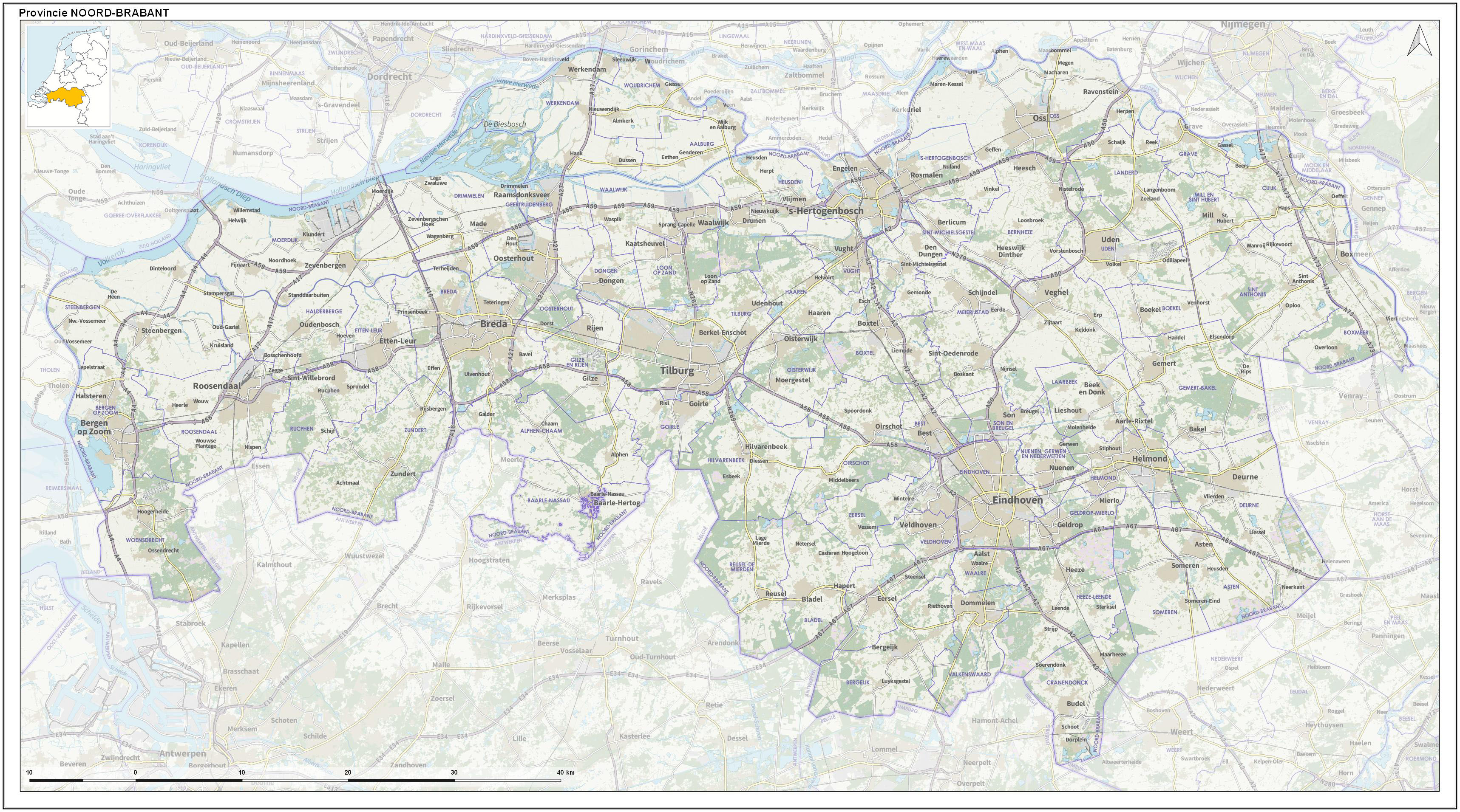 Toographic overview map of the Dutch Province of North Brabant as of 2018. Compiled by Jan-Willem van Aalst using Dutch Governmental open data (CC-BY Kadaster) and OpenStreetMap data (CC-BY OpenStreetMap contributors).